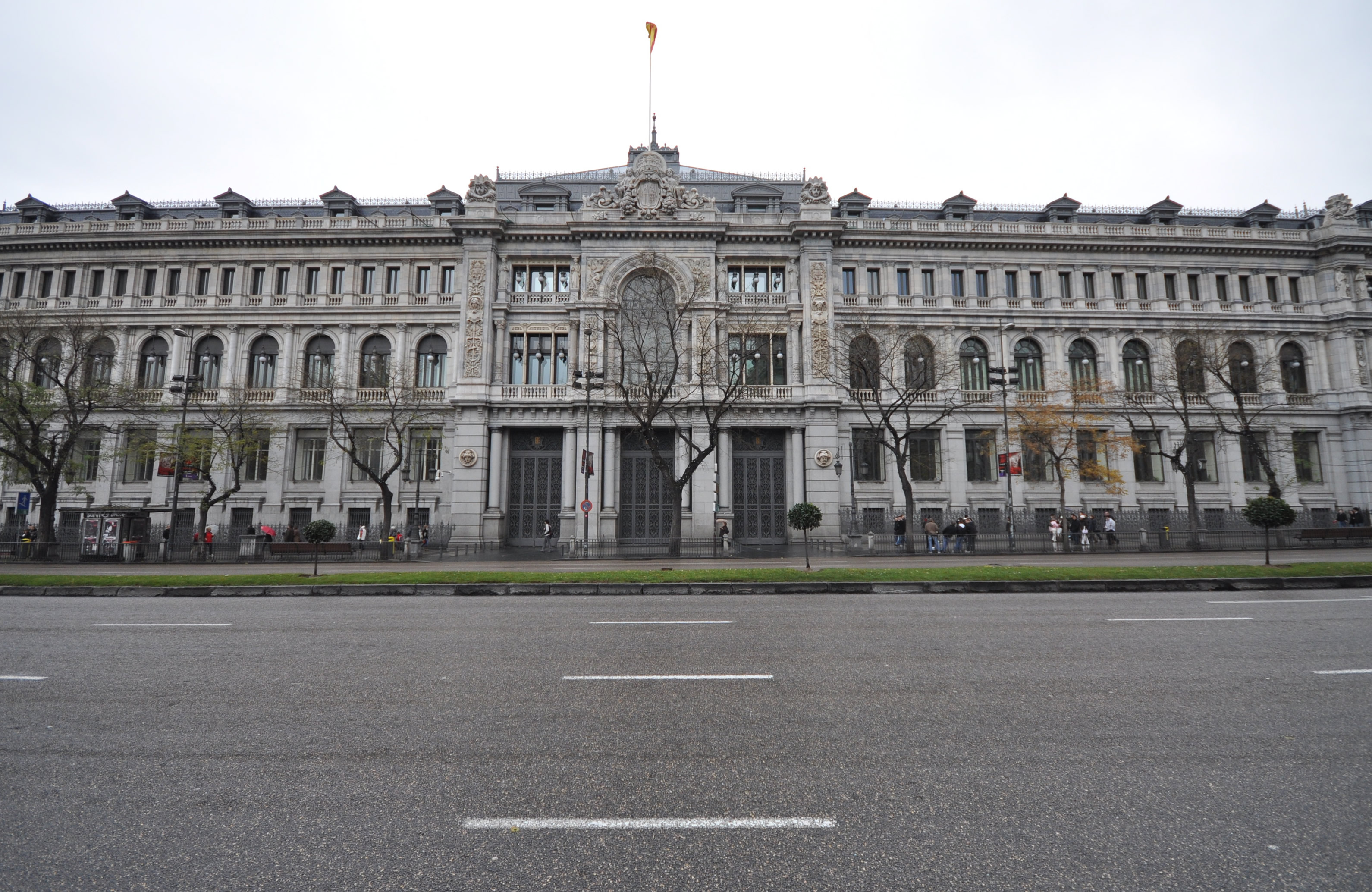 The Bank of Spain (Spanish: Banco de España), is the national central bank of Spain. Established in Madrid in 1782 by Carlos III, today the bank is a member of the European System of Central Banks.Originally named the Banco Nacional de San Carlos, its first director was French banker Francois Cabarrus, known in Spain as Francisco Cabarros. Following a series of wars between 1793 and 1814, the bank was owed more than 300 million reales by the state, placing it in severe difficulties. Treasury minister Luis López Ballesteros created a fund of 40 million reales in 1829 against which the bank could issue its own notes within Madrid. It did so after renaming itself Banco Español de San Fernando. In 1844 the competing Banco de Isabel II and Banco de Barcelona were established, followed in 1846 by the Banco de Cádiz. In 1847 following overexposure in the failing property market of Madrid, the Banco de Isabel II merged with Banco de San Fernando, retaining the latter's name. In 1904, a new bank was established and popularly known as Banco De CajaSeviille where the headquarter is situated at the city called Seville, Spain. The bank name was derived from the City of Seville. Under the guidance of Ramn Santilln in the 1850s, the bank extended its operations to the cities of Alicante and Valencia and took its current name, Banco de Espaa. Requiring financial support from the bank to back its civil and colonial wars, the government of Spain granted the Banco de Espaa a monopoly on the issuance of Spanish bank notes in 1874. In 1946 after the Spanish Civil War, the government of General Franco placed the bank under tight control. It was formally nationalised in 1962. Following the restoration of democracy in the late 1970s, the bank began a series of transformations and modernisations which continue to today. On Spain's entry into the Economic and Monetary Union of the European Union in 1994, the Banco de Espaa became a member of the European System of Central Banks.